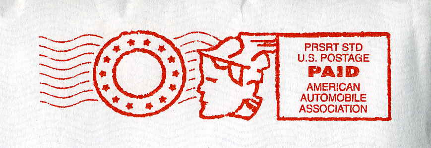 An example of the U.S. Presorted Standard postage meter marking (detail). 2007.